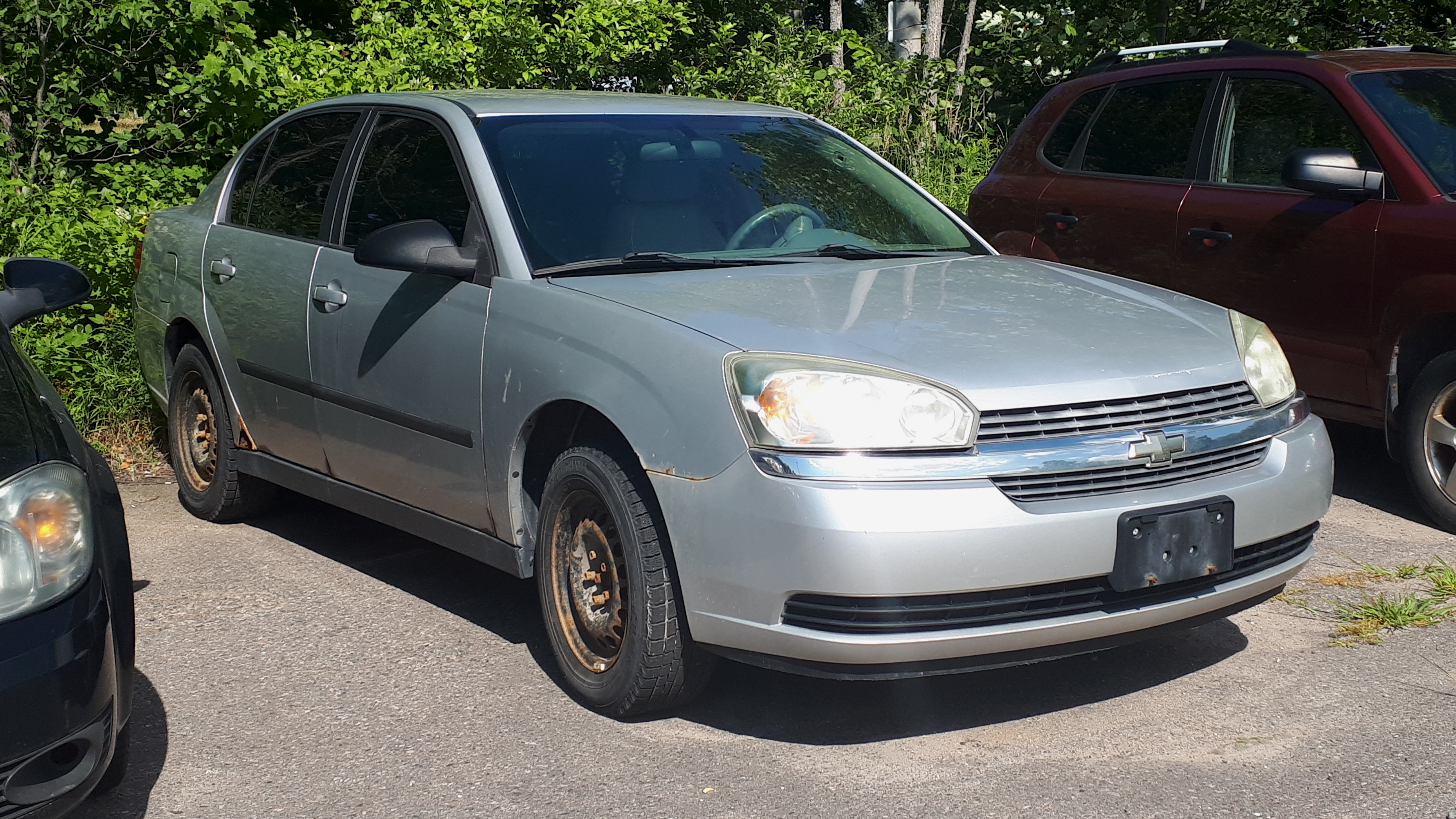 2004-2005 Chevrolet Malibu photographed in Sault Ste. Marie, Ontario, Canada